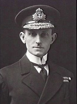 Portrait of Rear Admiral John Dumaresq CB, CVO, a senior officer in the British Royal Navy.